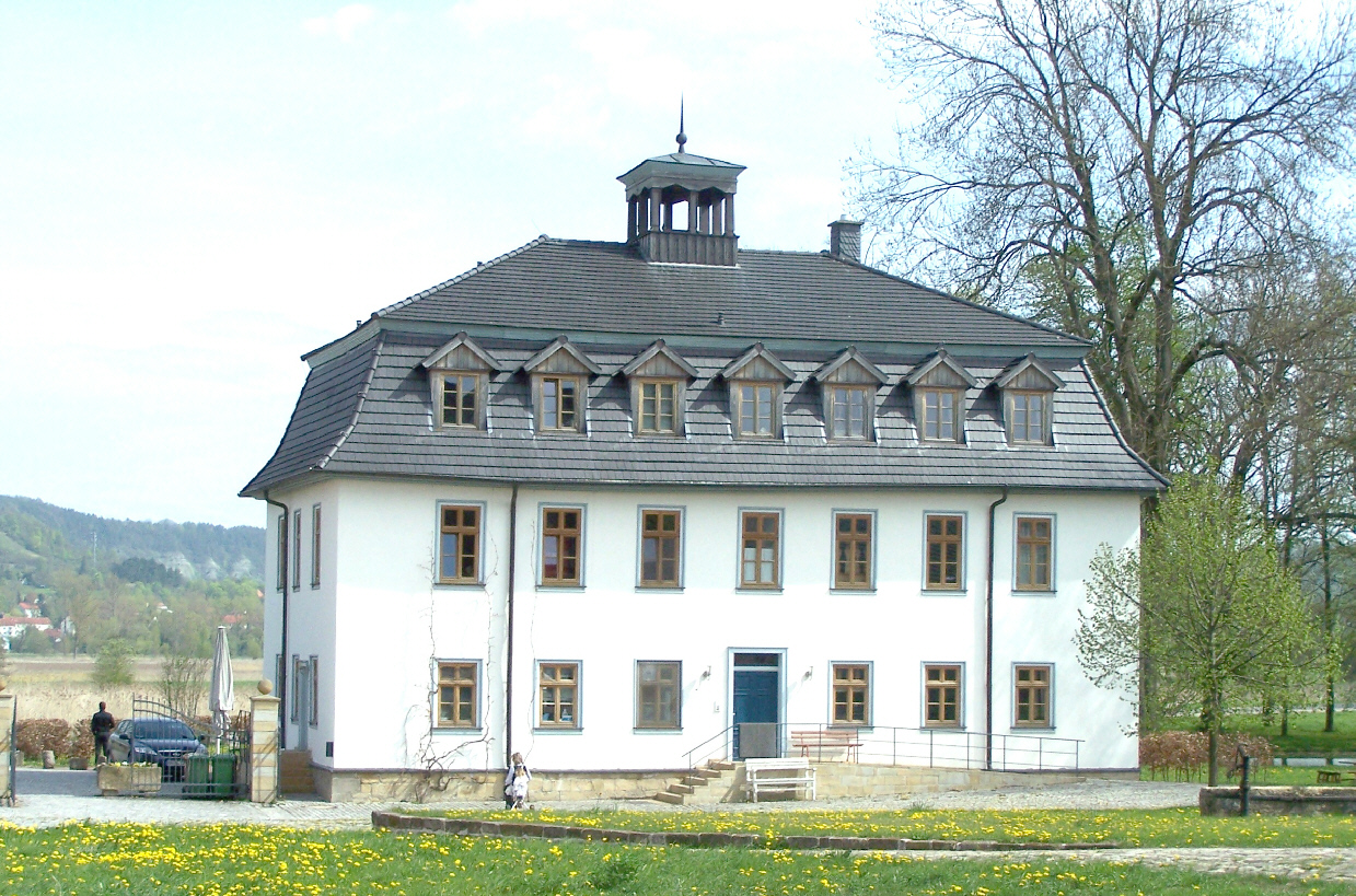 Wilhelmsglücksbrunn - main building.